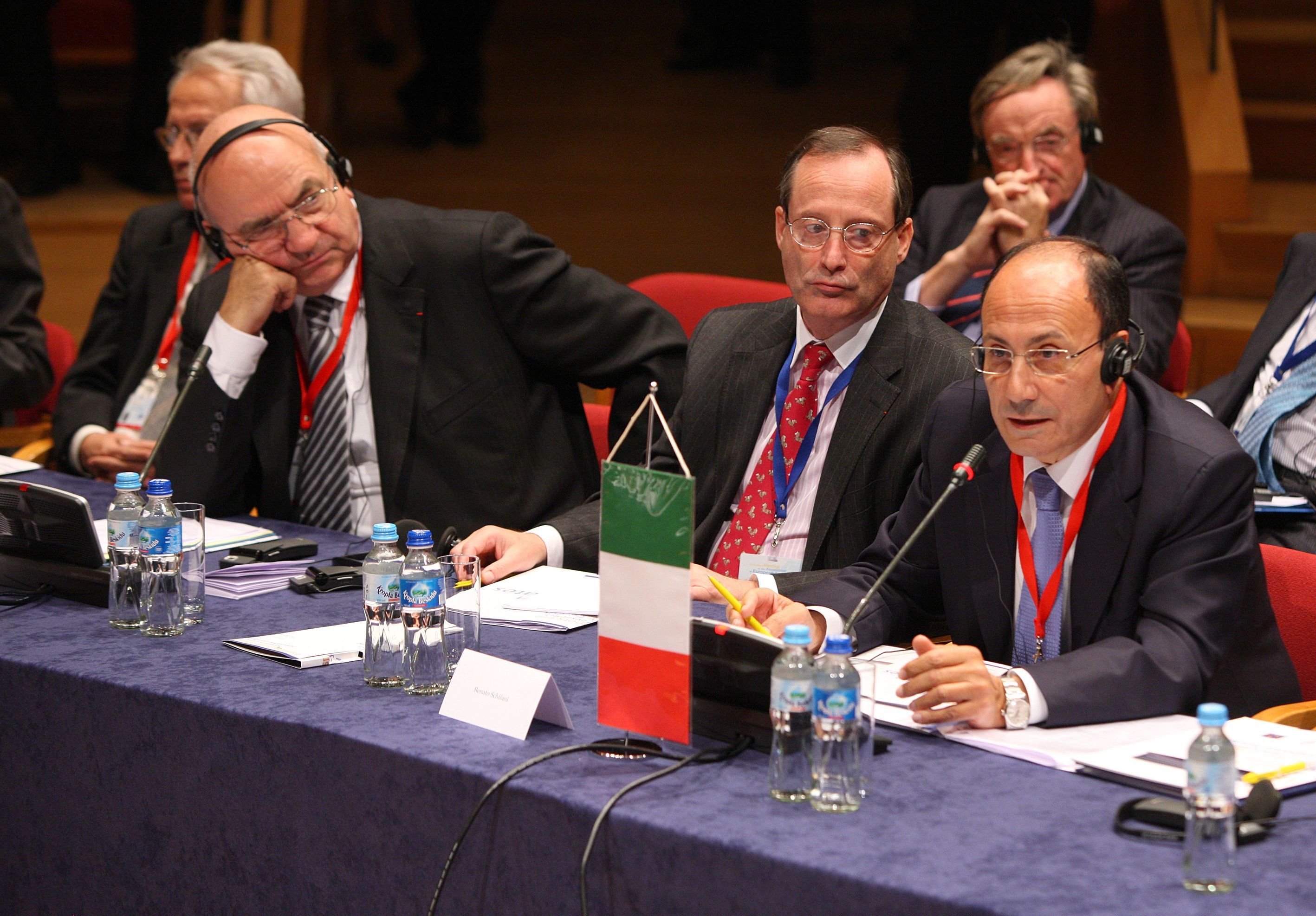 President of the Italian Senate Renato Schifani. Extraordinary meeting of the Association of European Senates in Gdańsk